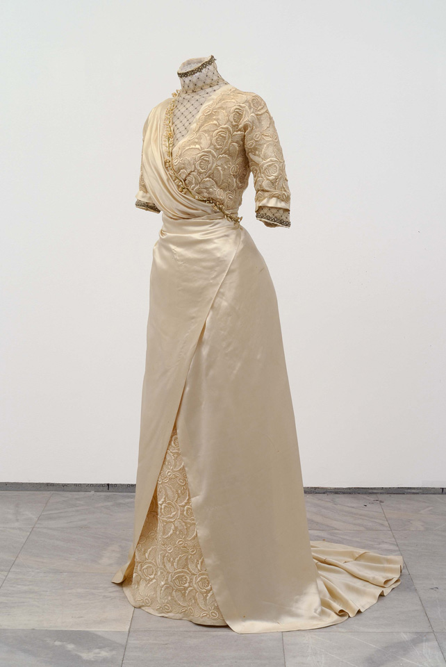 Wedding dress made by Berta Alkalaj in Belgrade, 1911. Cream embroidered silk with tulle, beading, wax flowers and metallic thread. Worn by Danica Paligorić to marry Major Nikola Jorgovanović in Nis 1911. Museum of Applied Arts in Belgrade, inv. no. 22891